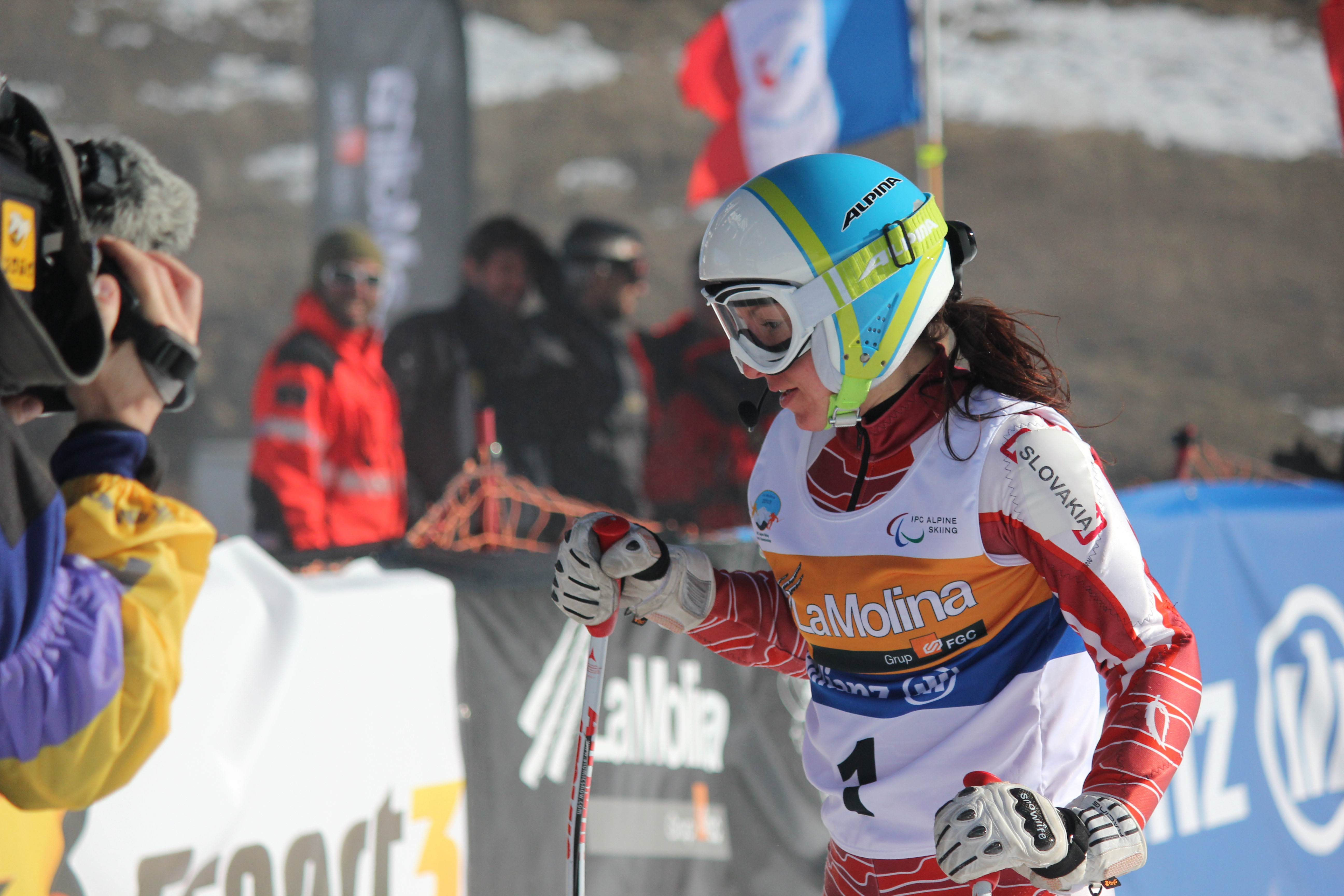 The women's visually impaired Super-G event at the 2013 IPC Alpine World Championships in La Molina, Spain. Henrieta Farkasova.